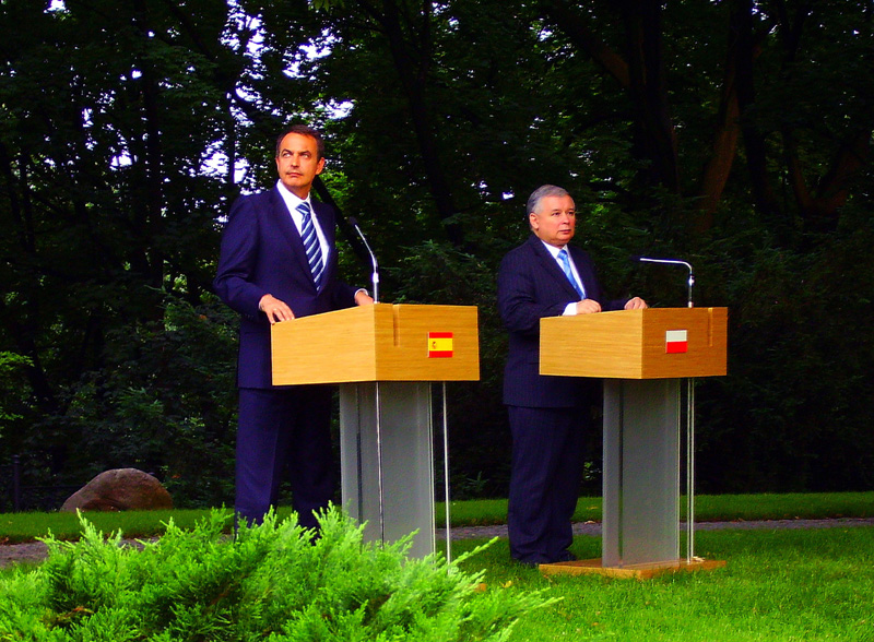 The spanish prime minister José Luis Rodríguez Zapatero with the polish prime minister Jarosław Kaczyński during the press conference after their bilateral meeting in Warsaw on 15th of June 2007